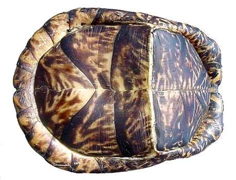 Terrapene carolina, Eastern Box Turtle, Shawnee National Forest Mississippi, Illinois, United States